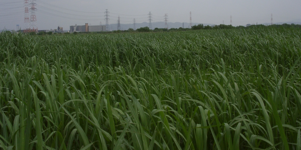 Miscanthus sacchariflorus